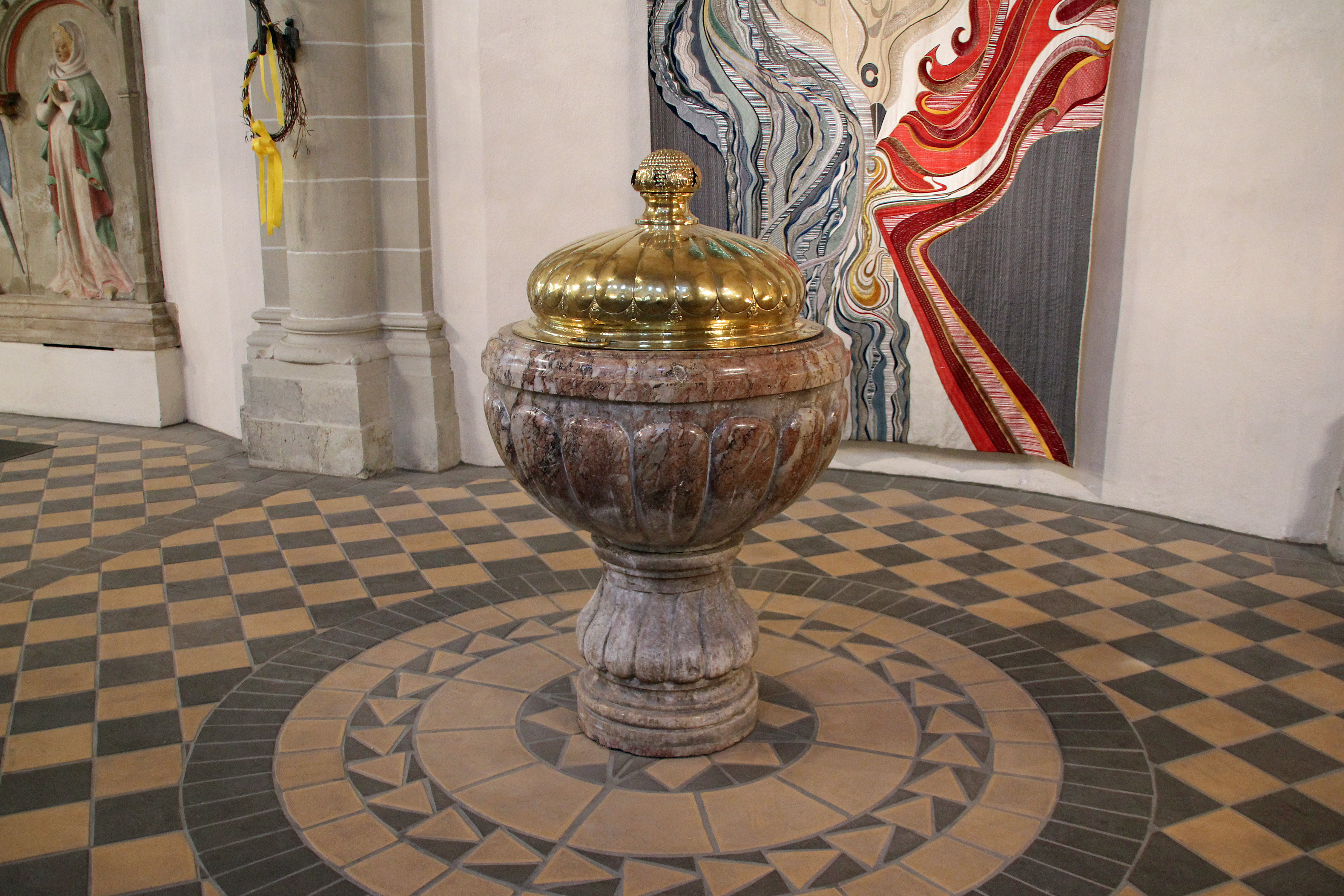 Basilica of St. Castor in Koblenz